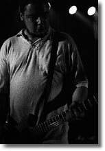 Dickie Hammond playing live with "Leatherface"